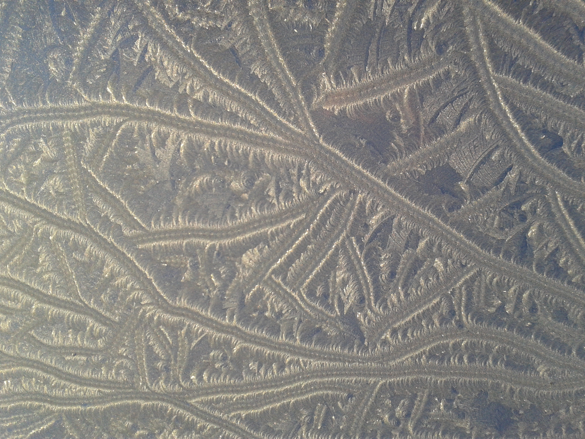 Rime on sunroof